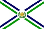 Flag of the municipality of Guatavita (Cundinamarca, Colombia)